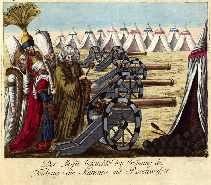 The mufti sprinkles the cannons with rose water at the start of the campaign, 1788